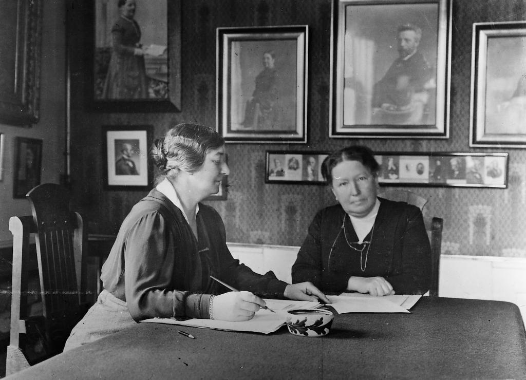 Photograph of Julie Arentholt and Gyrithe Lemche of the Danish Women's Society (Dansk Kvindesamfund).